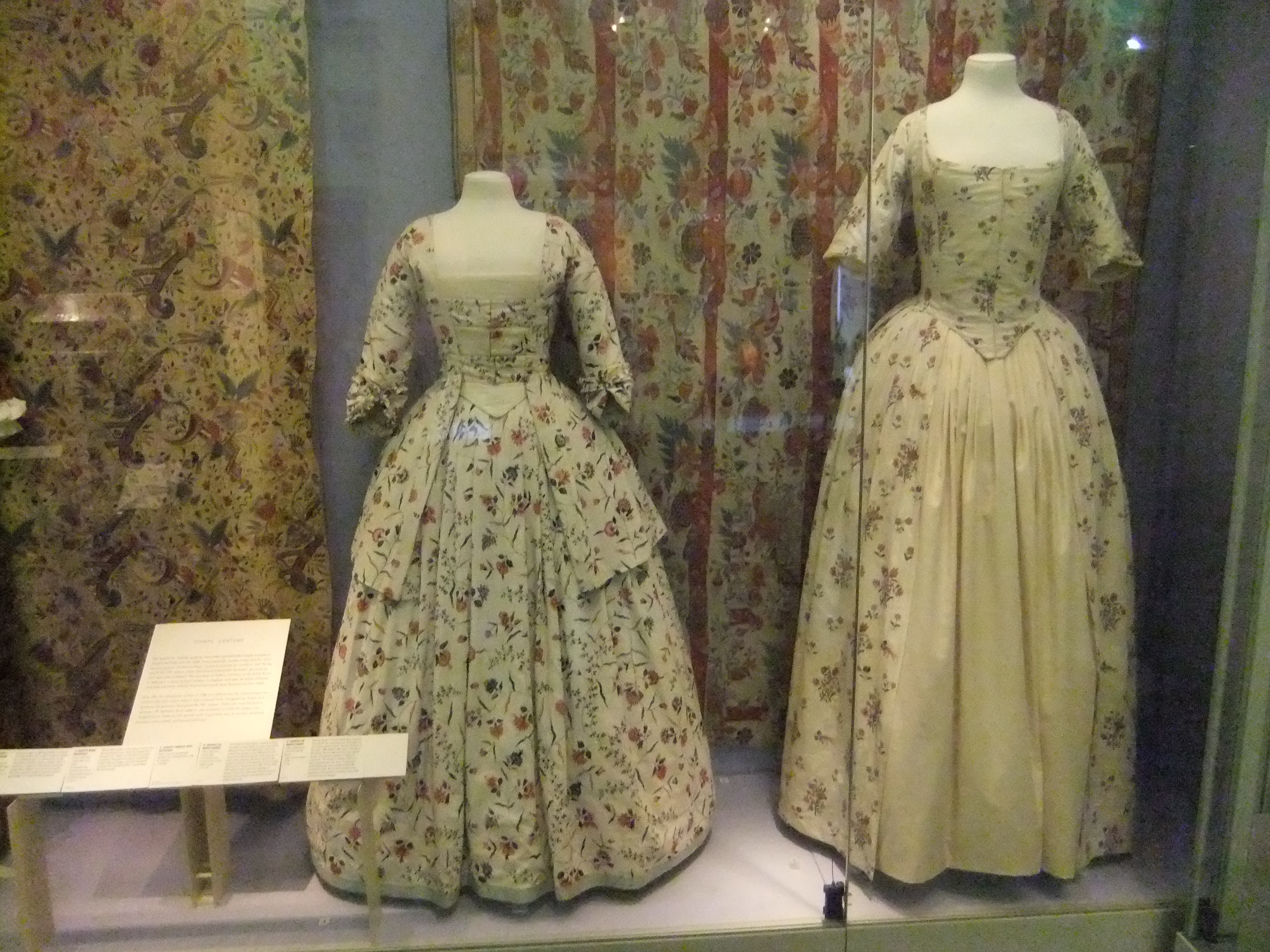 Chintz dresses. Photo taken at the Victoria & Albert Museum, London.